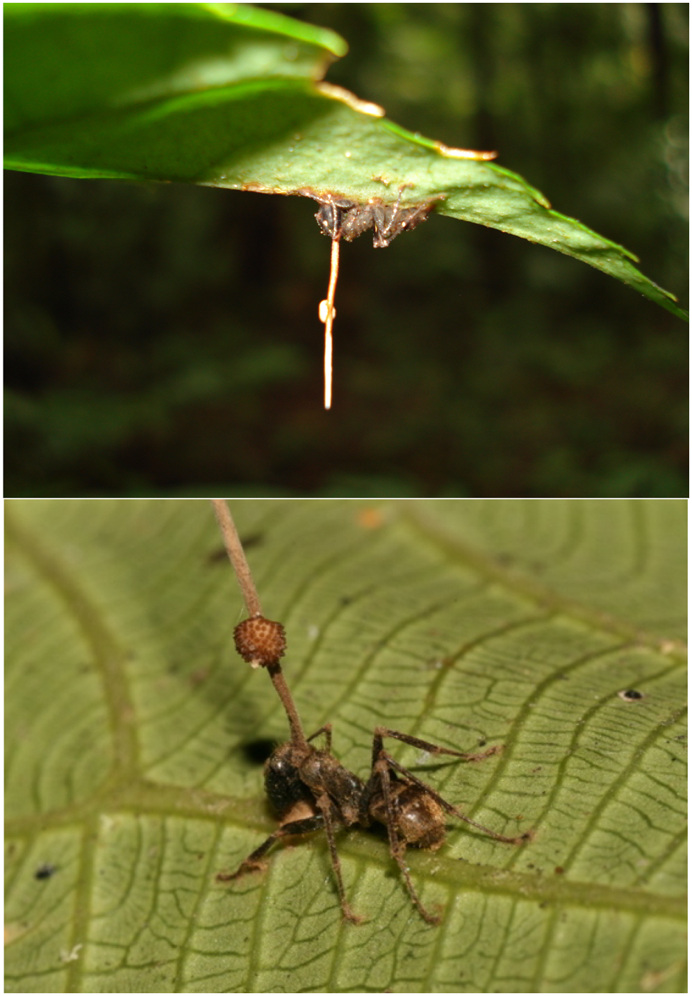 Ants biting the underside of leaves as a result of infection by O. unilateralis. The top panel shows the whole leaf with the dense surrounding vegetation in the background and the lower panel shows a close up view of dead ant attached to a leaf vein. The stroma of the fungus emerges from the back of the ant's head and the perithecia, from which spores are produced, grows from one side of this stroma, hence the species epithet. The photograph has been rotated 180 degrees to aid visualization. Fungus species: Ophiocordyceps unilateralis Ant species: Camponotus leonardi